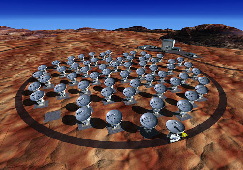 Artist's concept of the Atacama Large Millimeter Array (ALMA)